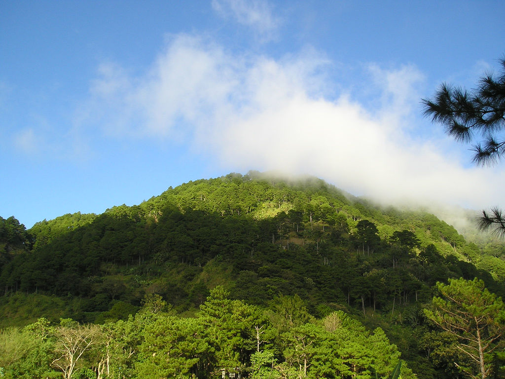 Foggy mountain, Bucari, Leon, Iloilo, Philippines